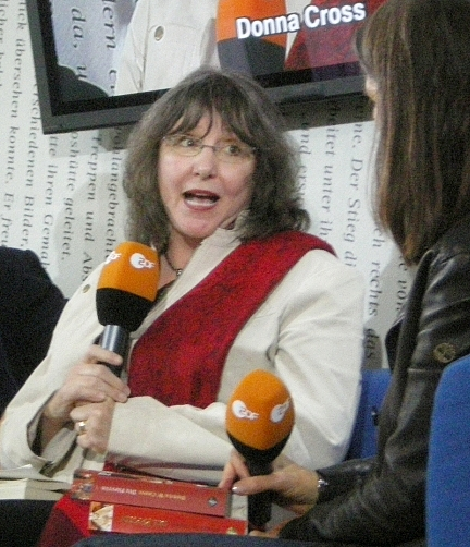 Donna Woolfolk Cross during International Frankfurt Book Fair, Germany 2009